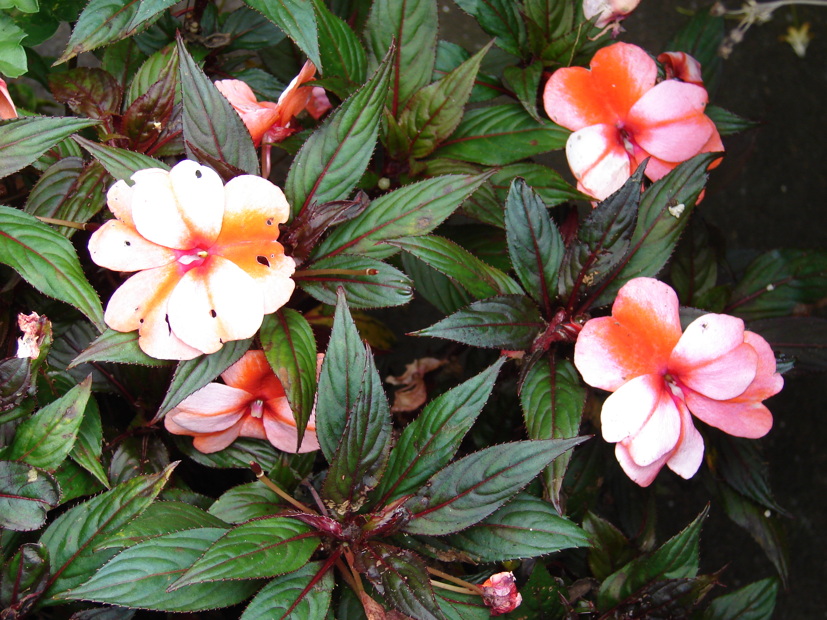 Impatiens hawkeri (flowers and leaves). Location: Maui, Kula Ace Hardware and Nursery